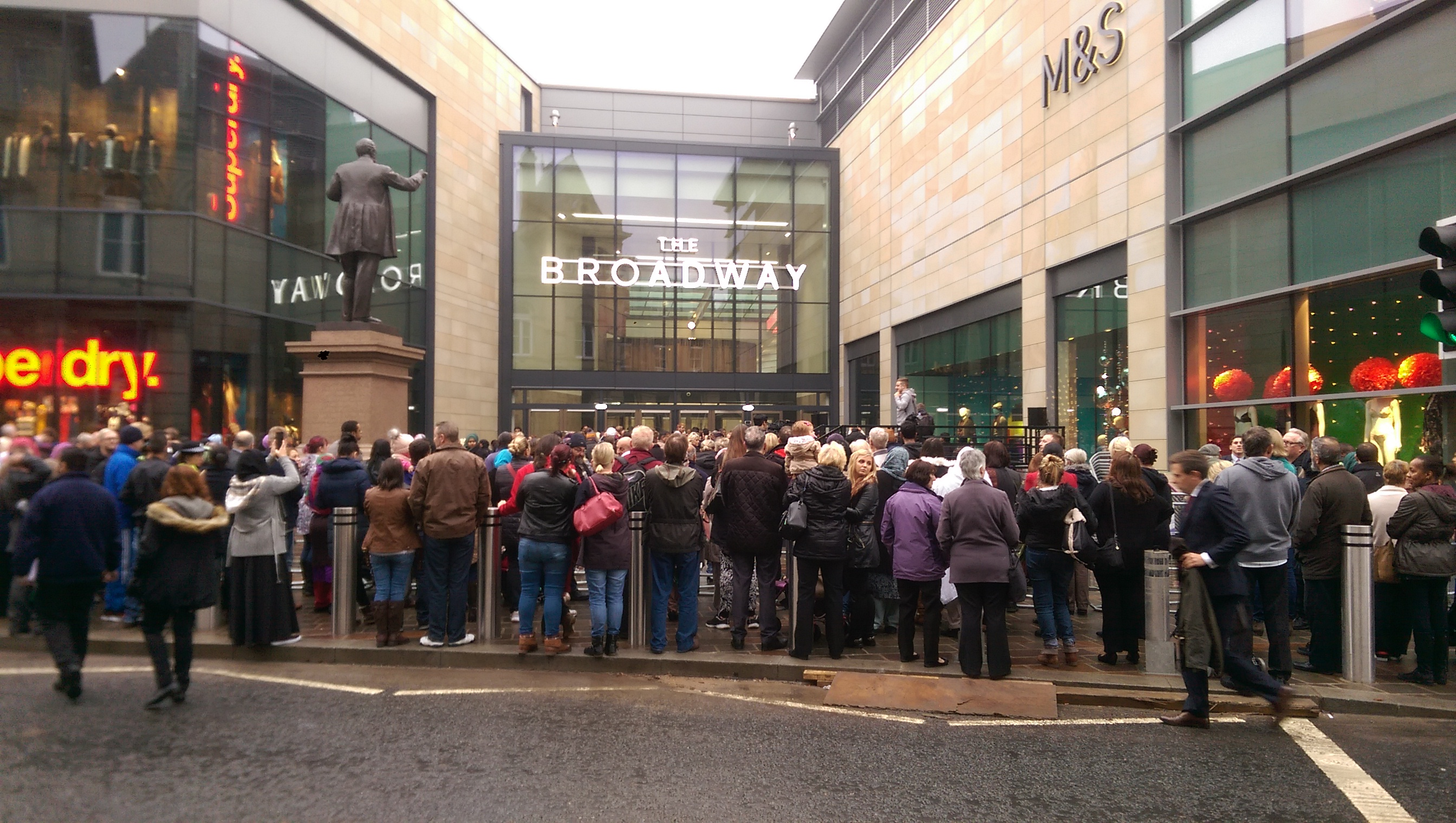 Crowds outside the Forster Square entrance of The Broadway, just before 10 am on 5 November 2015, waiting for the official opening of the Centre by Alexandra Burke. The statue of W.E.Forster, newly returned to Forster Square, watches the proceedings.